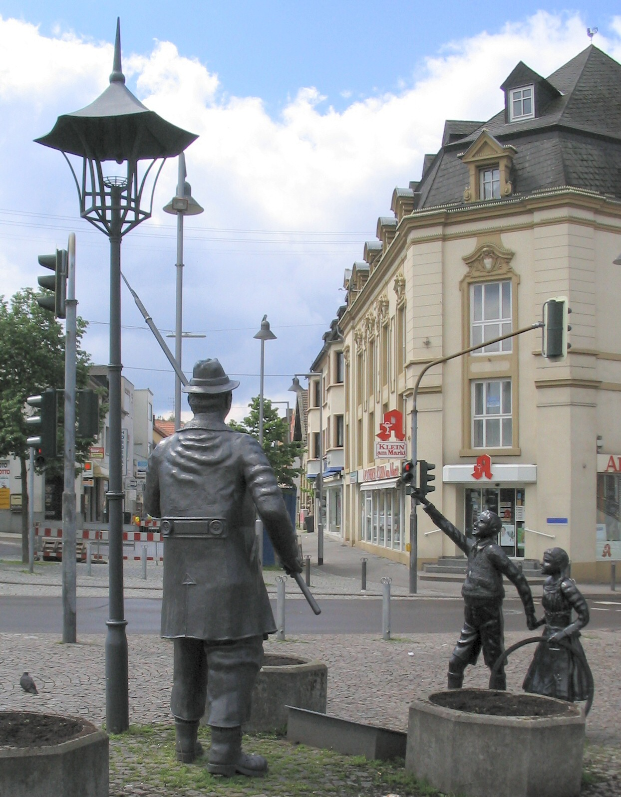 Description: The monument De Monn mit da long Stong by Zoltan Hencze in Dudweiler (Saarbrücken/Germany). Photographer: kh80 Date: 2005-05-08 License: GFDL and cc-by-sa/2.0/de